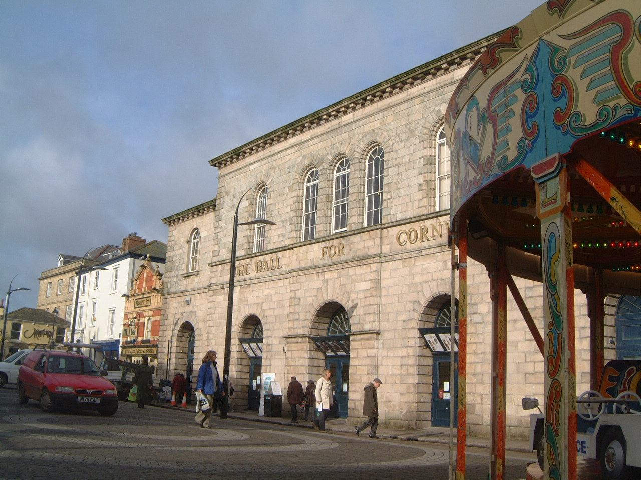 An image of Hall for Cornwall, Truro, Cornwall's largest Theatre.